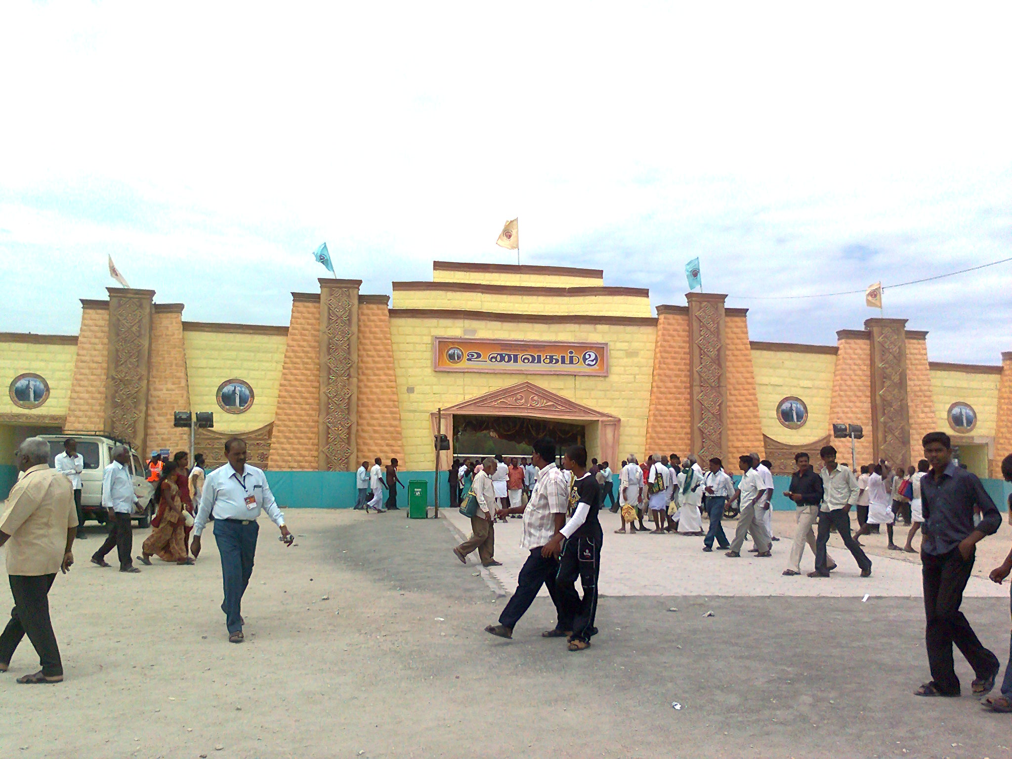 image of world classical tamil conference-2010, food hall view